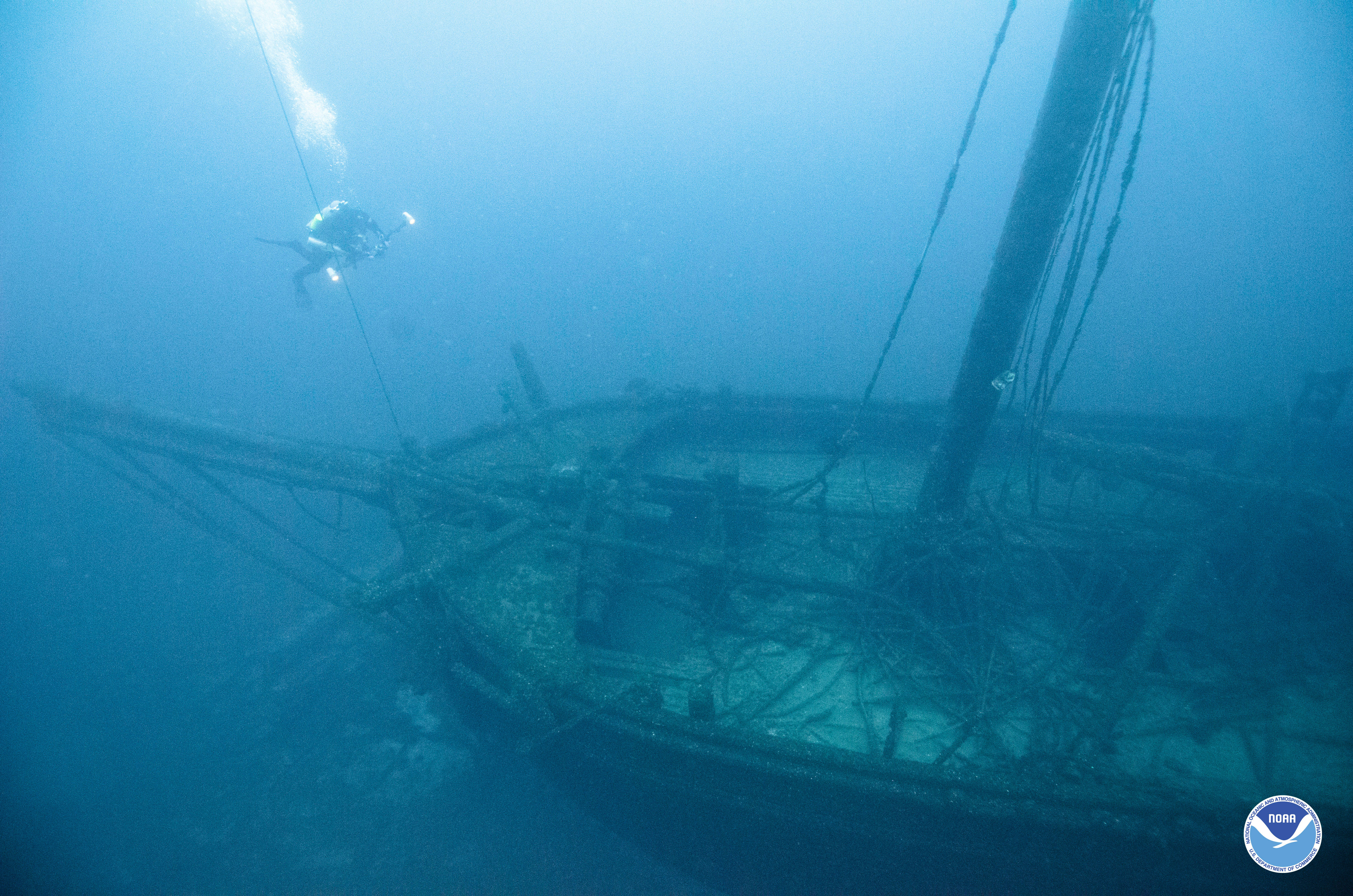 The TYPO sank in October of 1899 after being run down by another schooner. Today, the TYPO sits upright in the water with evidence of its quick sinking still present. The cargo is still on board and the ship's bell can still be seen in the belfry. Learn more about this shipwreck from Thunder Bay National Marine Sanctuary. (Original photo source and more information: NOAA Thunder Bay National Marine Sanctuary)